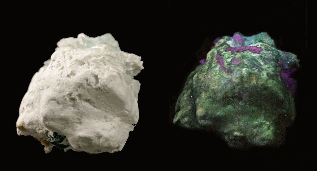 Makatite, Pectolite Locality: Poudrette quarry (Demix quarry; Uni-Mix quarry; Desourdy quarry; Carrière Mont Saint-Hilaire), Mont Saint-Hilaire, Rouville RCM, Montérégie, Québec, Canada Size ~ 2½ x 2½ x 2½ cm. MOB coll. A not so hot attempt to capture the (LW) UV response. To the naked eye, the makatite response appears strong greenish white SW, less bright LW (this photo). The pectolite is pink/violet/blue (mostly LW). But neither color is as saturated as this photo would lead you to believe. Unfortunately it’s the best I can do. I’m not a UV photographer. However, my point is this: You would never mistake the UV response of pectolite for that of makatite. Hence UV response may be helpful in distinguishing makatite from pectolite specimens such as which are often labeled “makatite”. Unfortunately, the UV response of both makatite and pectolite is sometimes weak or non-existent. So the UV test won’t work in such cases. for a detailed description of what the UV response “should” be as well as other info.